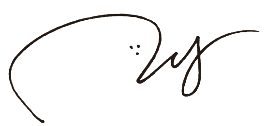 This is the Signature of Ong Seong Wu.